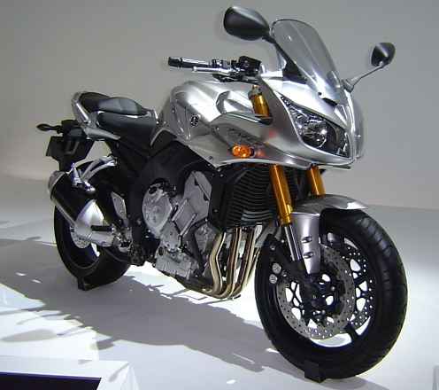 YAMAHA FZ1 2006(2005 Tokyo Motor Show)